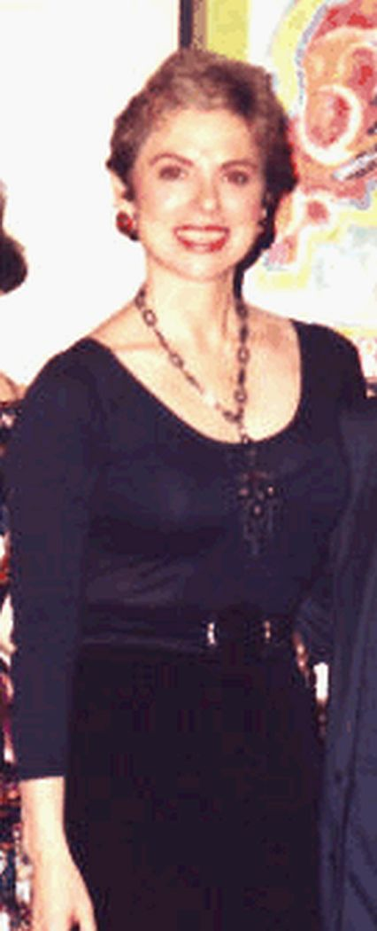 The artist Nancy Glenn-Nieto was invited by the Mexican Consulate of San Francisco to present an exhibit of her art work for a private organization